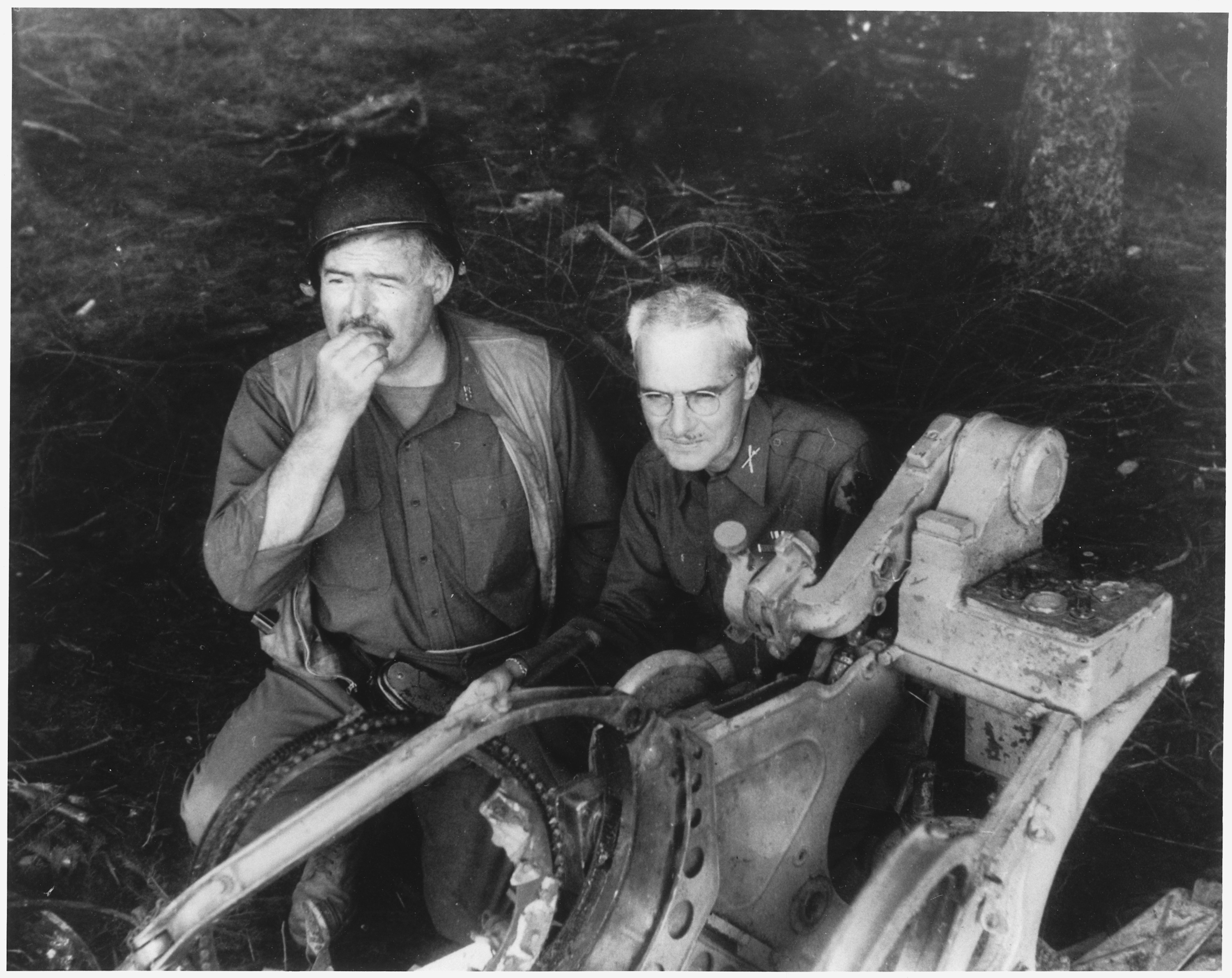 Scope and content: Photograph of Ernest Hemingway and Colonel Lanham taken in Schweiler, Germany.